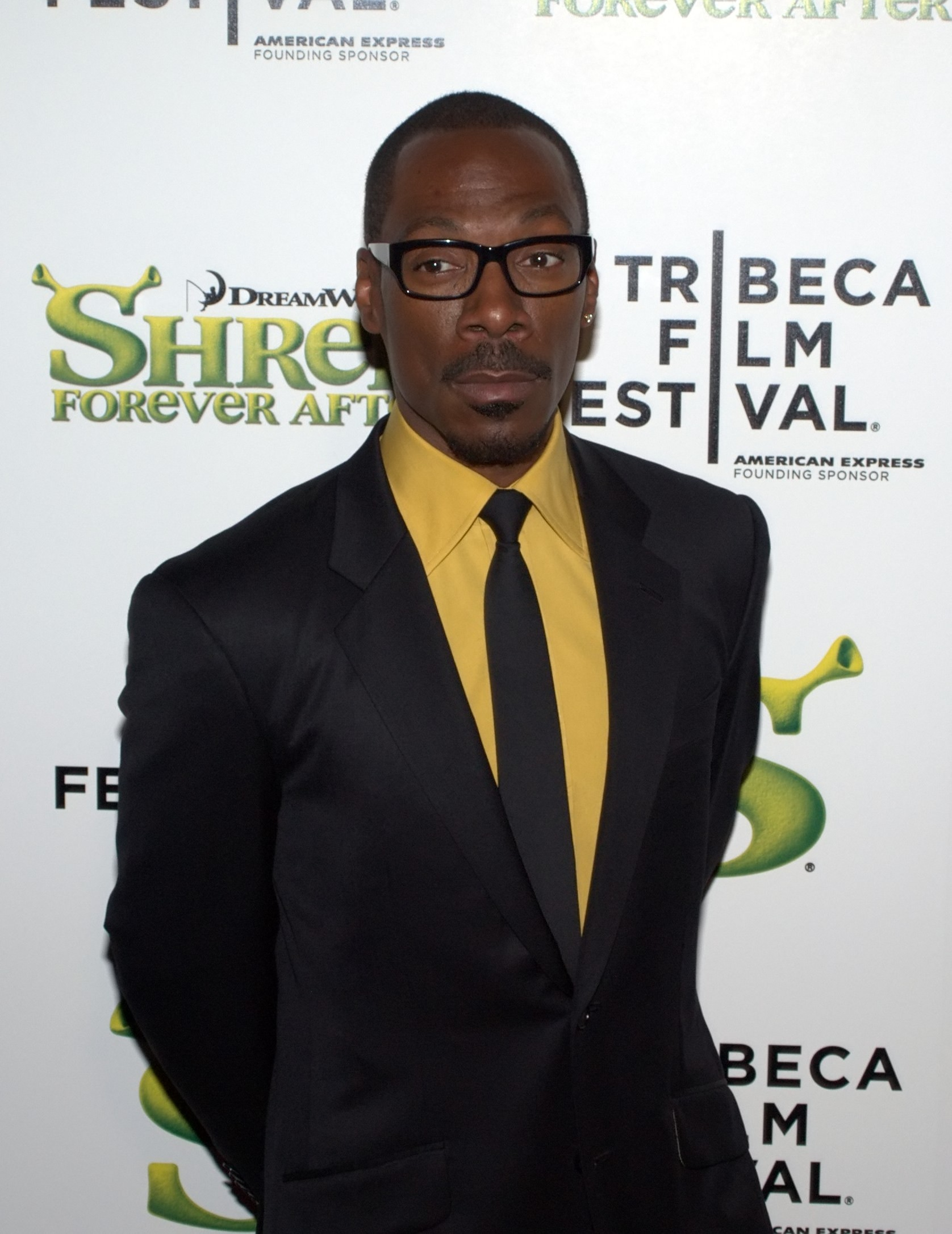 Eddie Murphy at the 2010 Tribeca Film Festival.